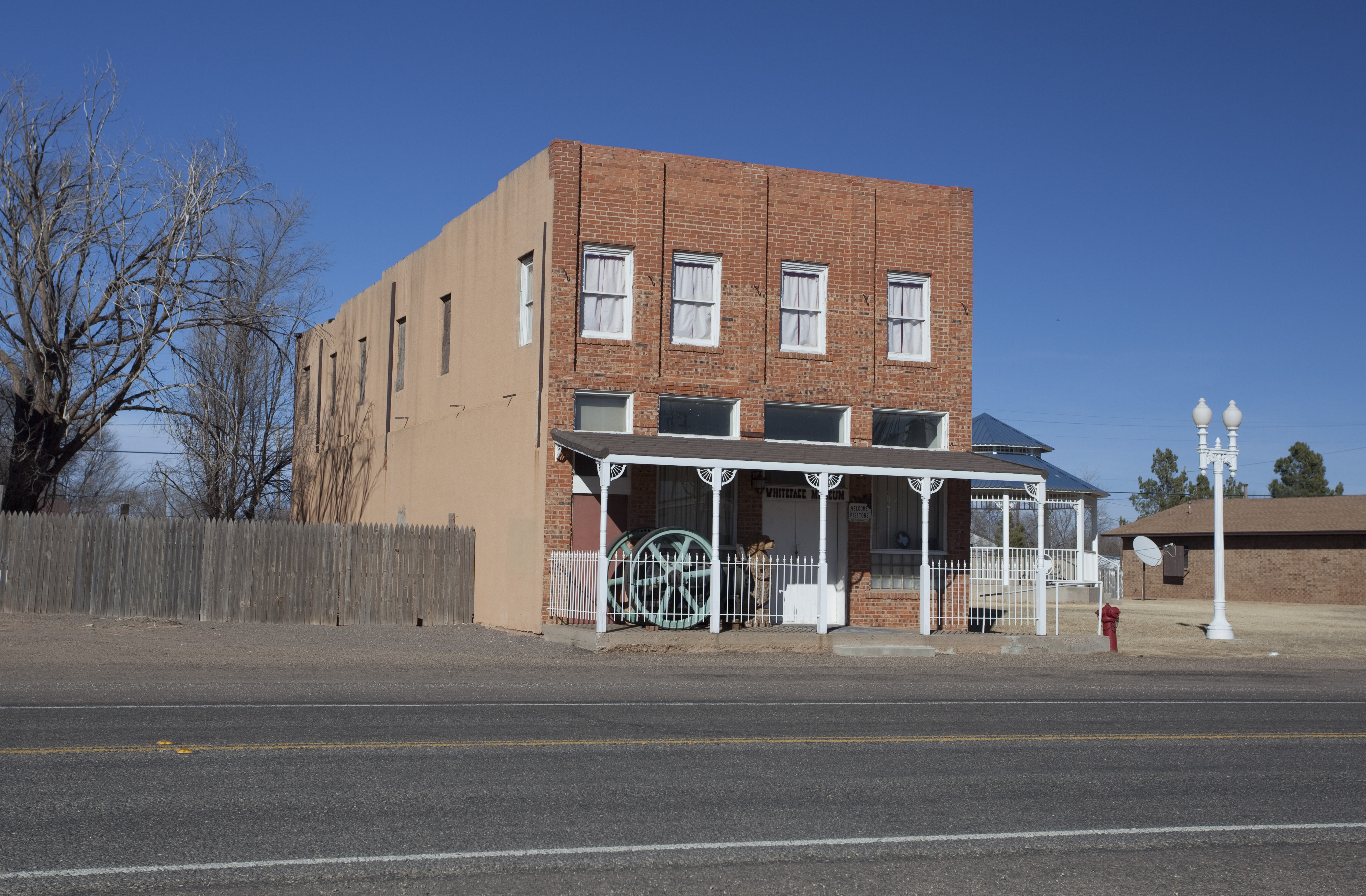 Originally the Whiteface Hotel built in 1926, now a museum, Whiteface, Texas.